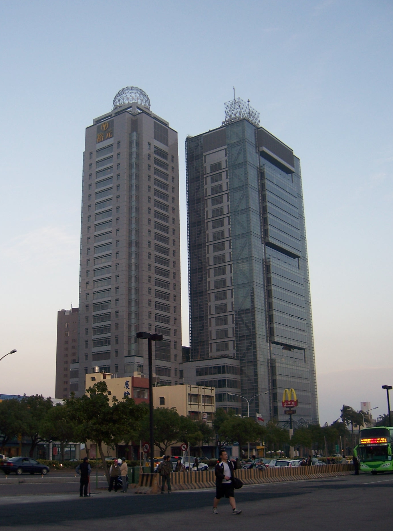 Windsor Hotel, located on Taichung Port Road., Taichung City, Taiwan.The photo was taken from U-Bus Jhonggang Transfer Station.中文（台灣）: 臺灣臺中市西屯區的裕元花園酒店。攝於統聯客運中港轉運站。